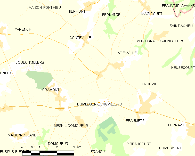 Map of French municipality Domléger-Longvillers